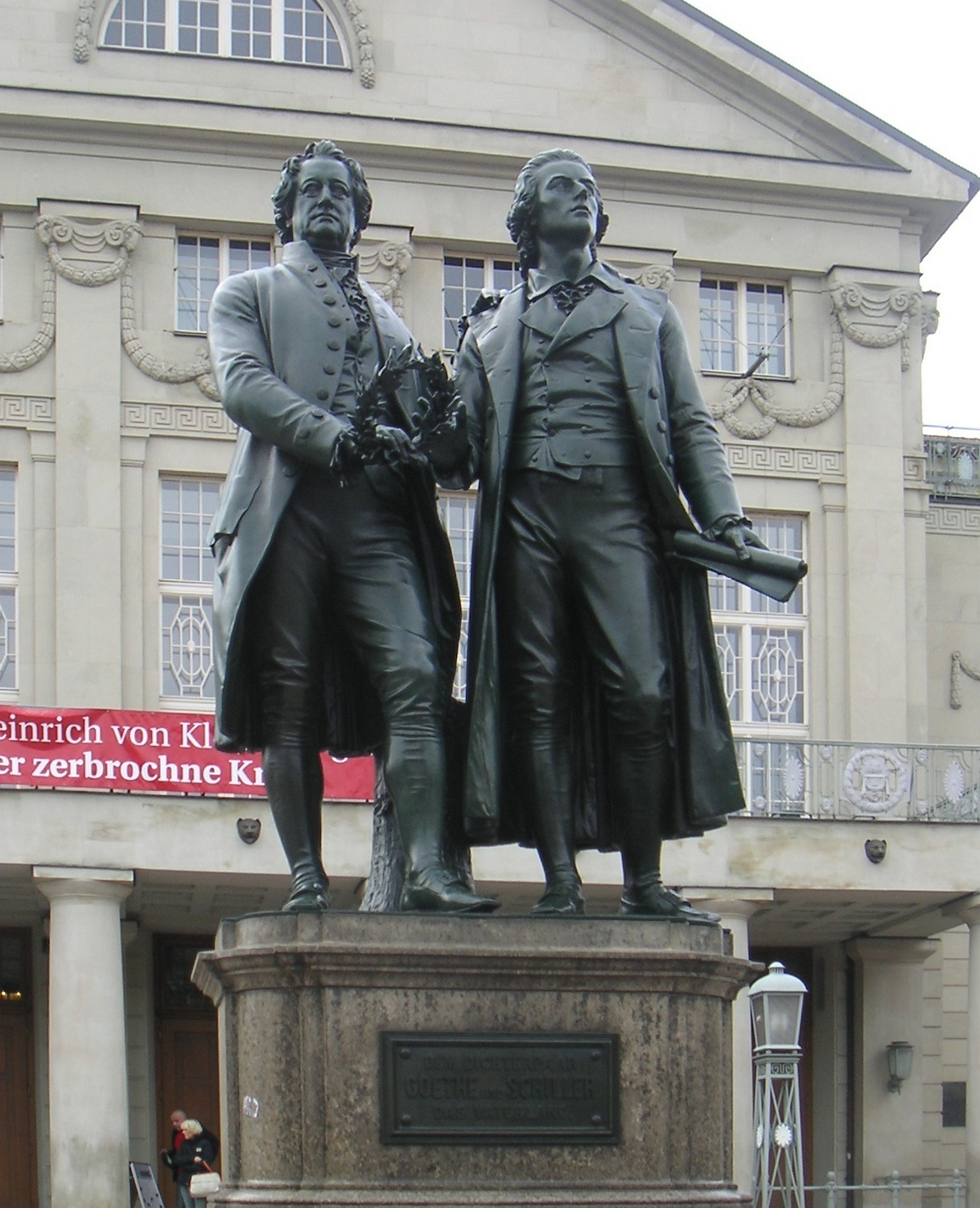 Monument to the poets Goethe and Schiller at Weimar, Germany. The statues appear to have been recently refinished